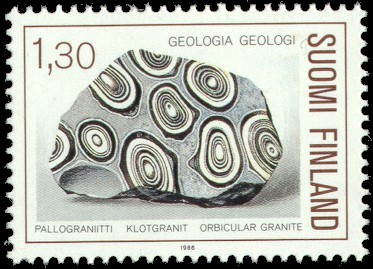 Postage stamp illustrating the Finnish national rock, granite (orbicular variant)